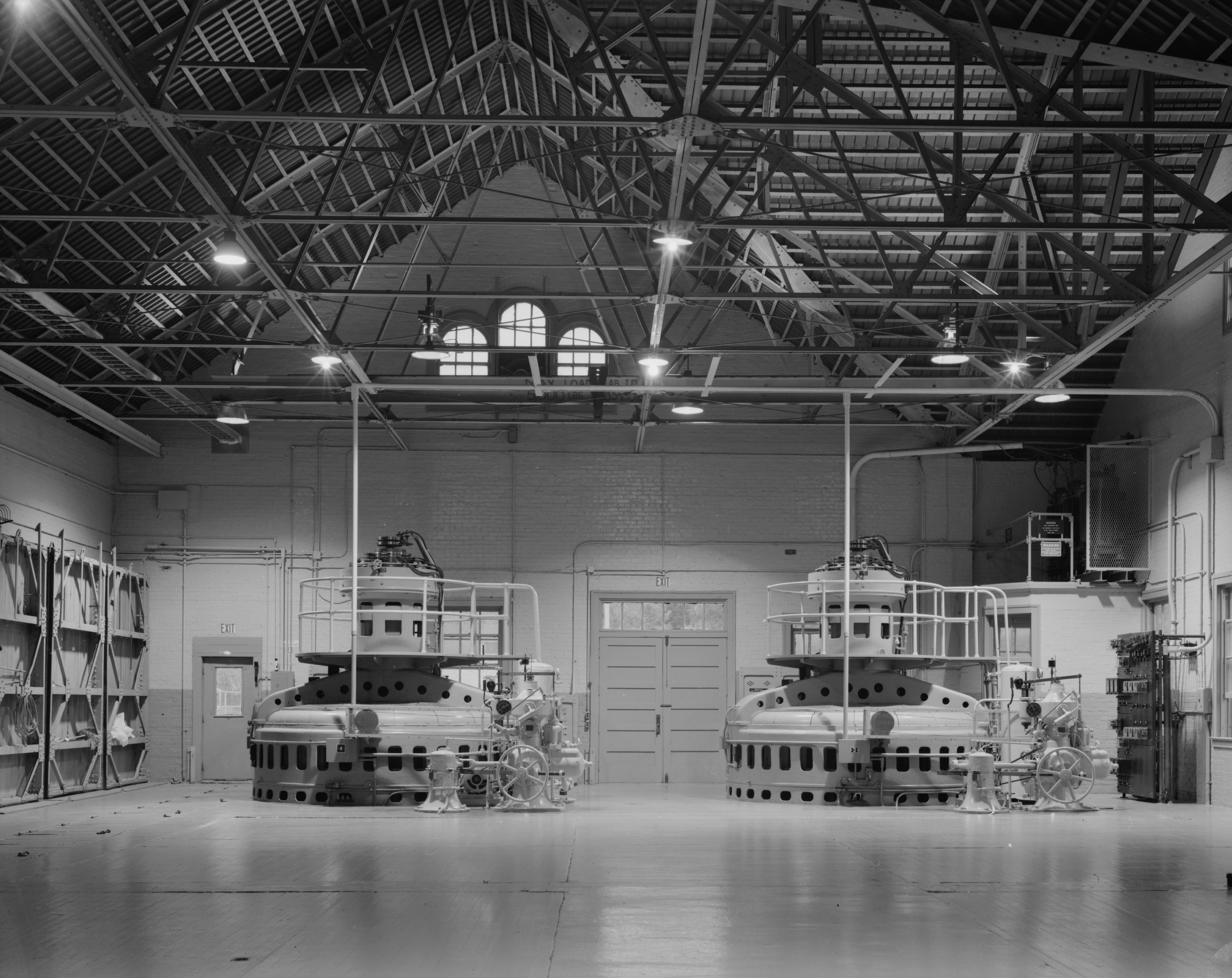 Map of area A view of the Croton Dam, a dam and powerplant complex, built 1907, on the Muskegon River in Croton Township, Newaygo County, Michigan. This image is from within the powerhouse, the reddish spot about midway between D and A on the locator map at right. It is an image of the water turbines. (Cropped version) HAER title: 6. LONG VIEW EAST, INTERIOR OF TURBINE BUILDING HAER MICH,62-CROTO.V,1B-6